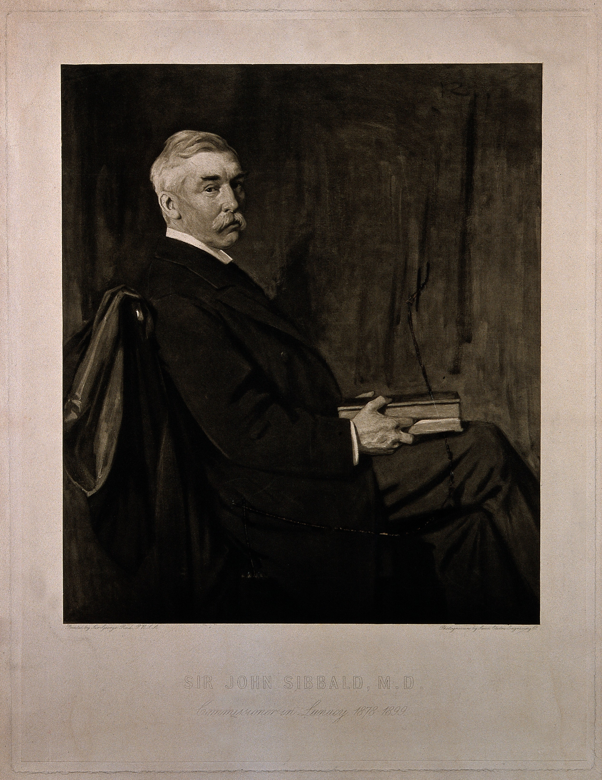 Sir John Sibbald. Photogravure after Sir G. Reid. Iconographic Collections Keywords: portrait prints; John Sibbald; photogravures